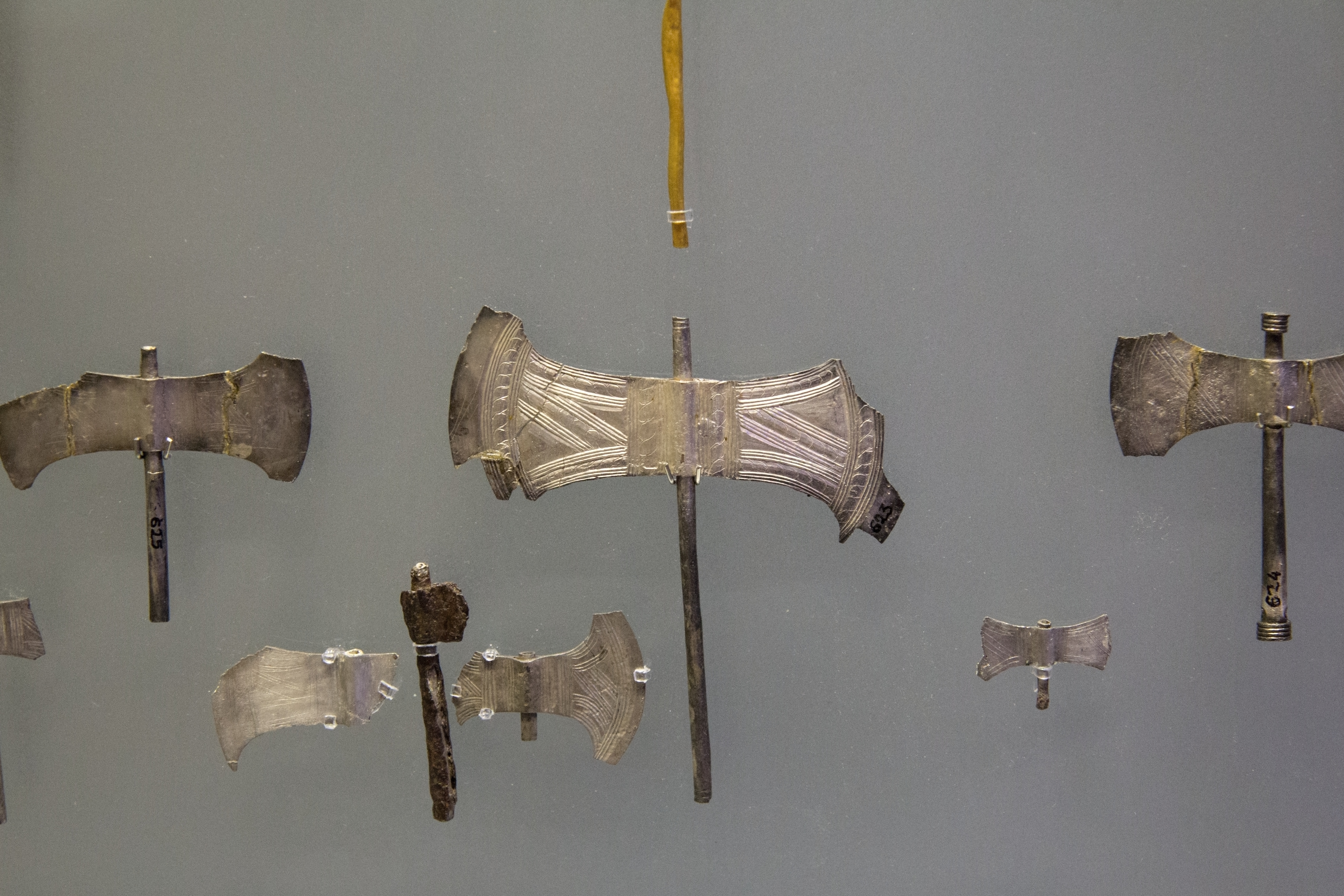 Votive double axes of silver sheet. Arkilochori Cave, 1700-1450 BC. Archaeological Museum of Heraklion.